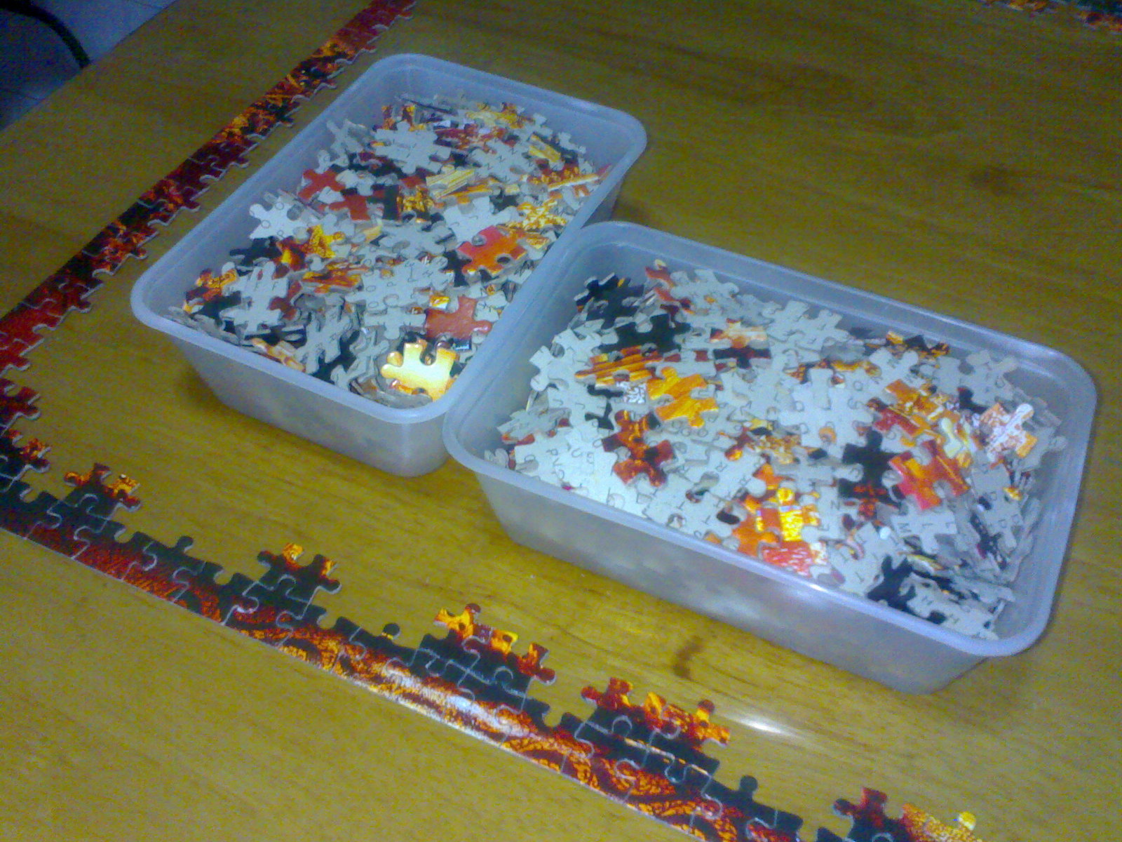 Jigsaw pieces with border. All pieces are in H shape.